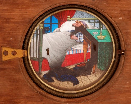 rats jump into the mouth of a sleeping bearded man